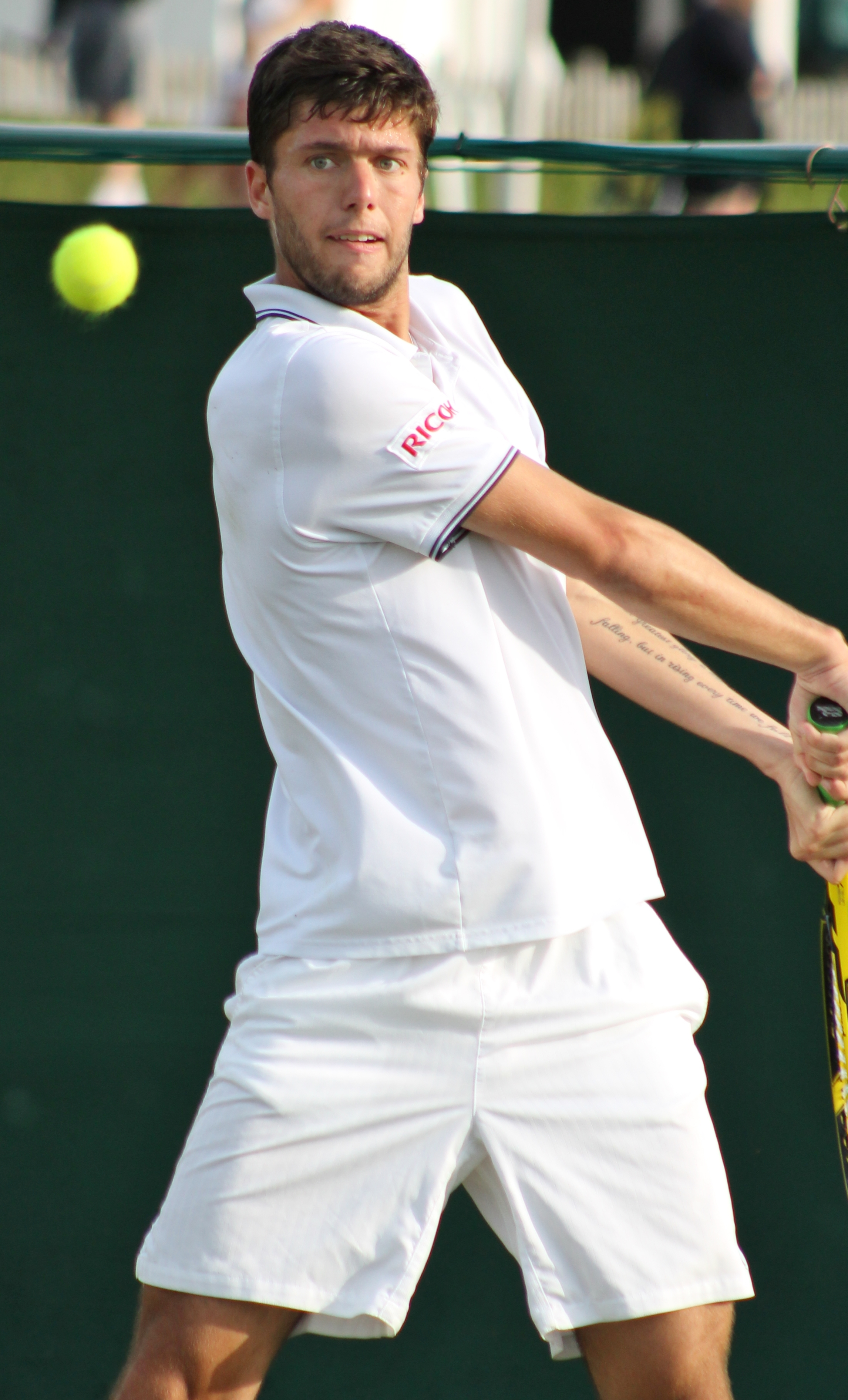 Golding WMQ14 (21)